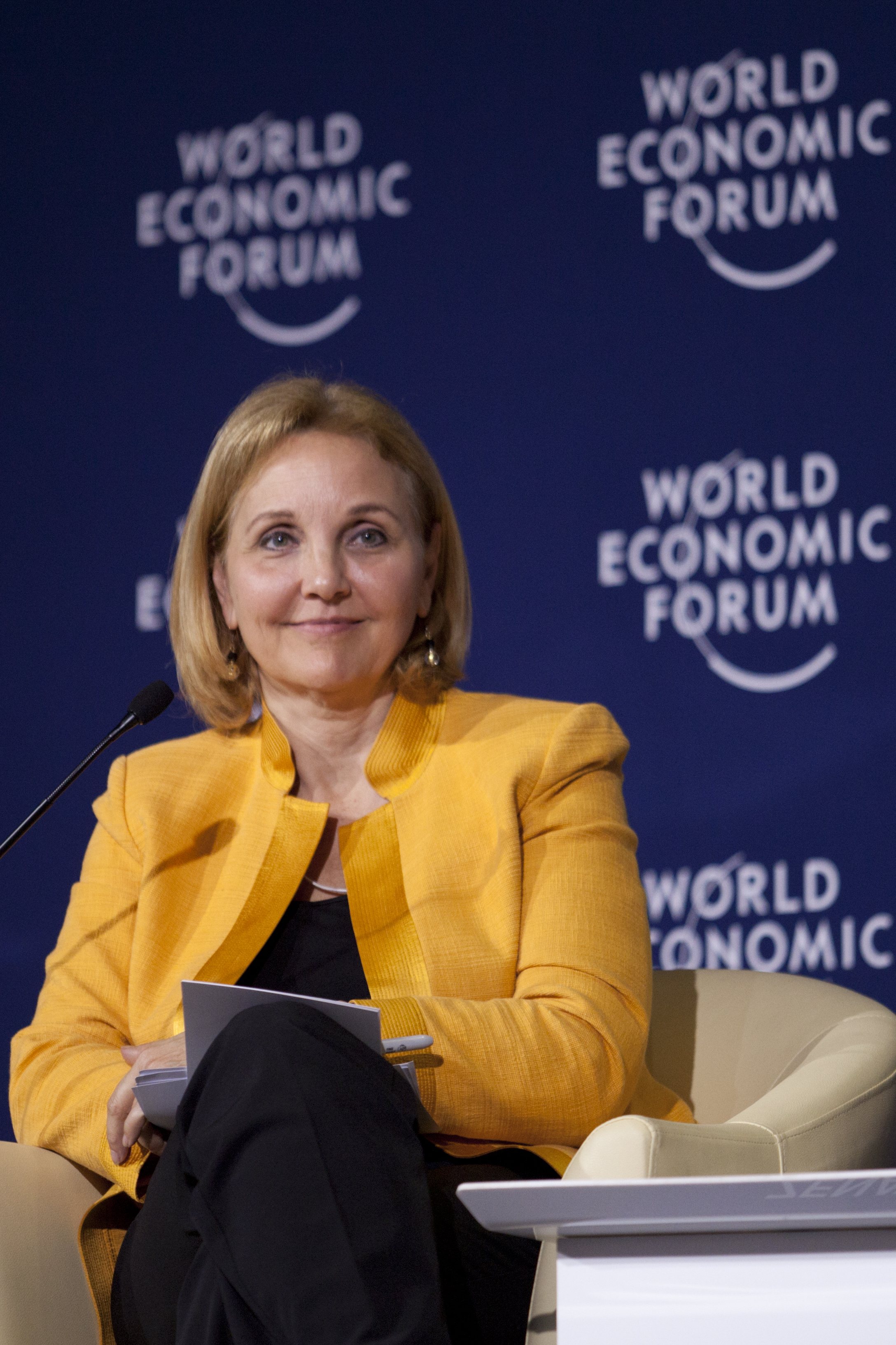 ADDIS ABABA/ETHIOPIA, 09-11 MAY 2012 - Josette Sheeran, Vice-Chairman and Member of the Managing Board, World Economic Forum, captured during the Grow Africa: Transforming African Agriculture Session at the World Economic Forum on Africa held in Addis Ababa, Ethiopia, 9-11 May, 2012.